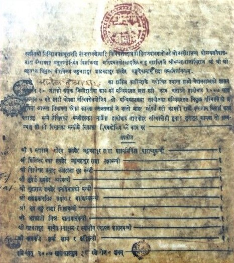 Historical royal proclamation announced by King Tribhuvan on 1951 February 18